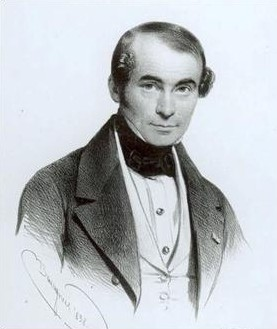 Portrait of Jean-Pierre Willmar (Belgian minister, 1790-1858).